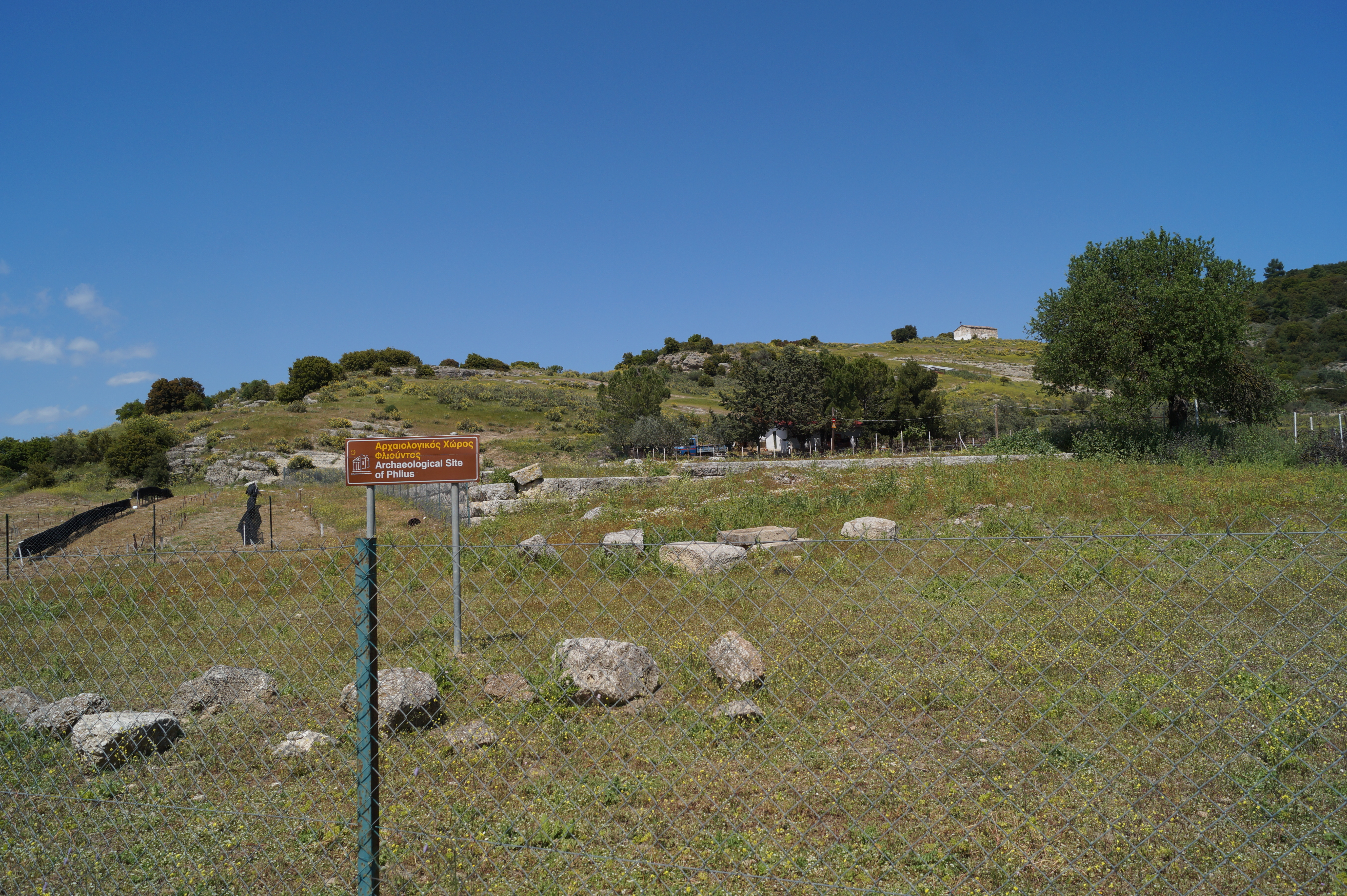 Nemea, Corinthia, Greece: Archaeological site of Phlious. In the background there ist the church of Panagia Rachiotissa.